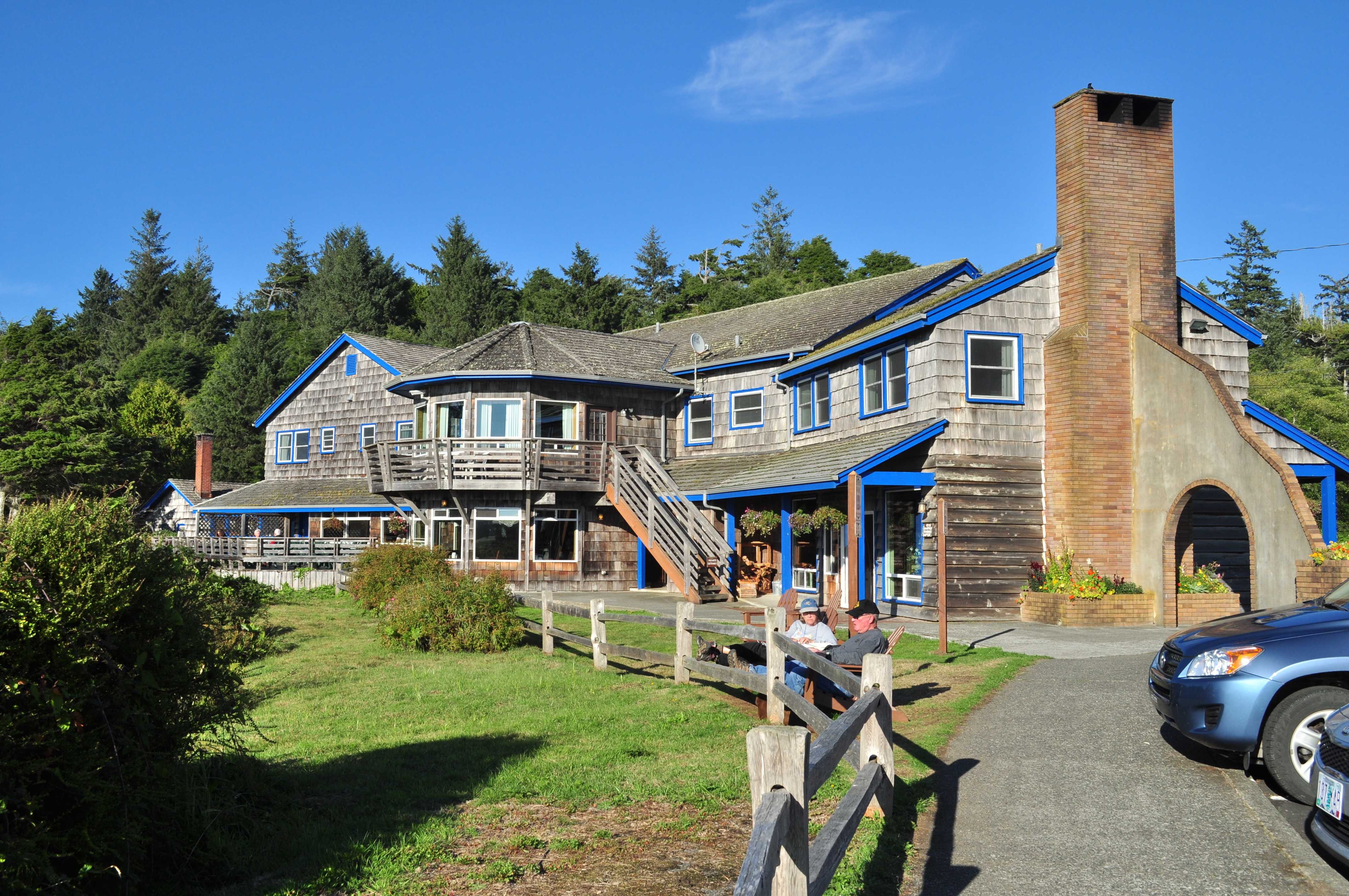 Kalaloch Lodge, Washington, U.S. in Olympic National Park.